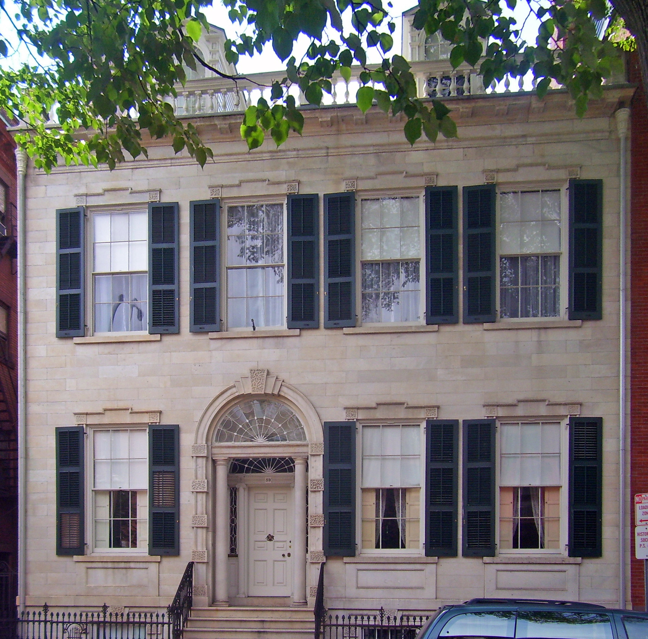 Hart-Cluett Mansion, Troy, NY, USA, currently home to the Rensselaer County Historical Society